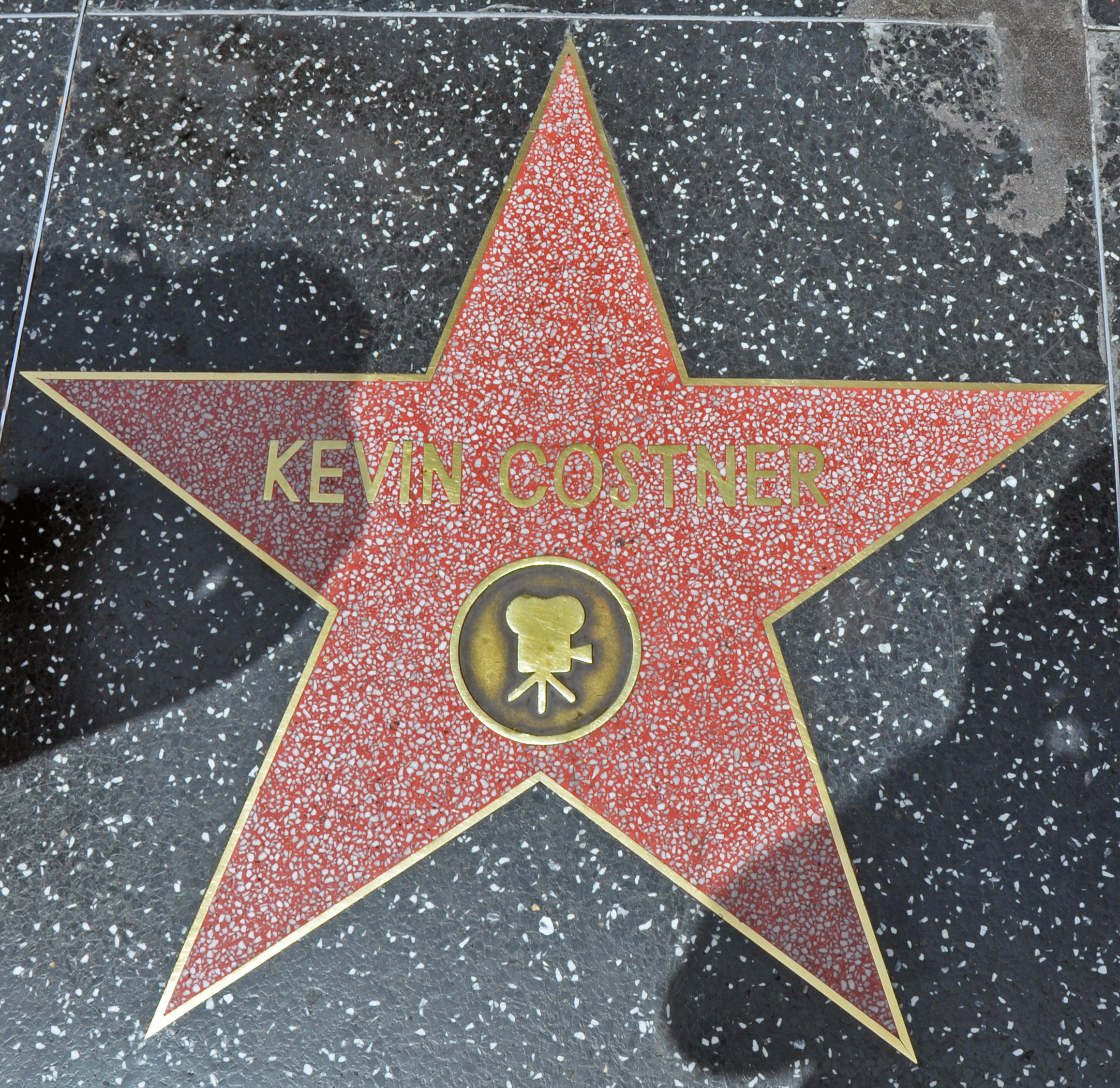 Stella di Kevin Costner sulla Hollywood Walk of Fame - Agosto 2011.